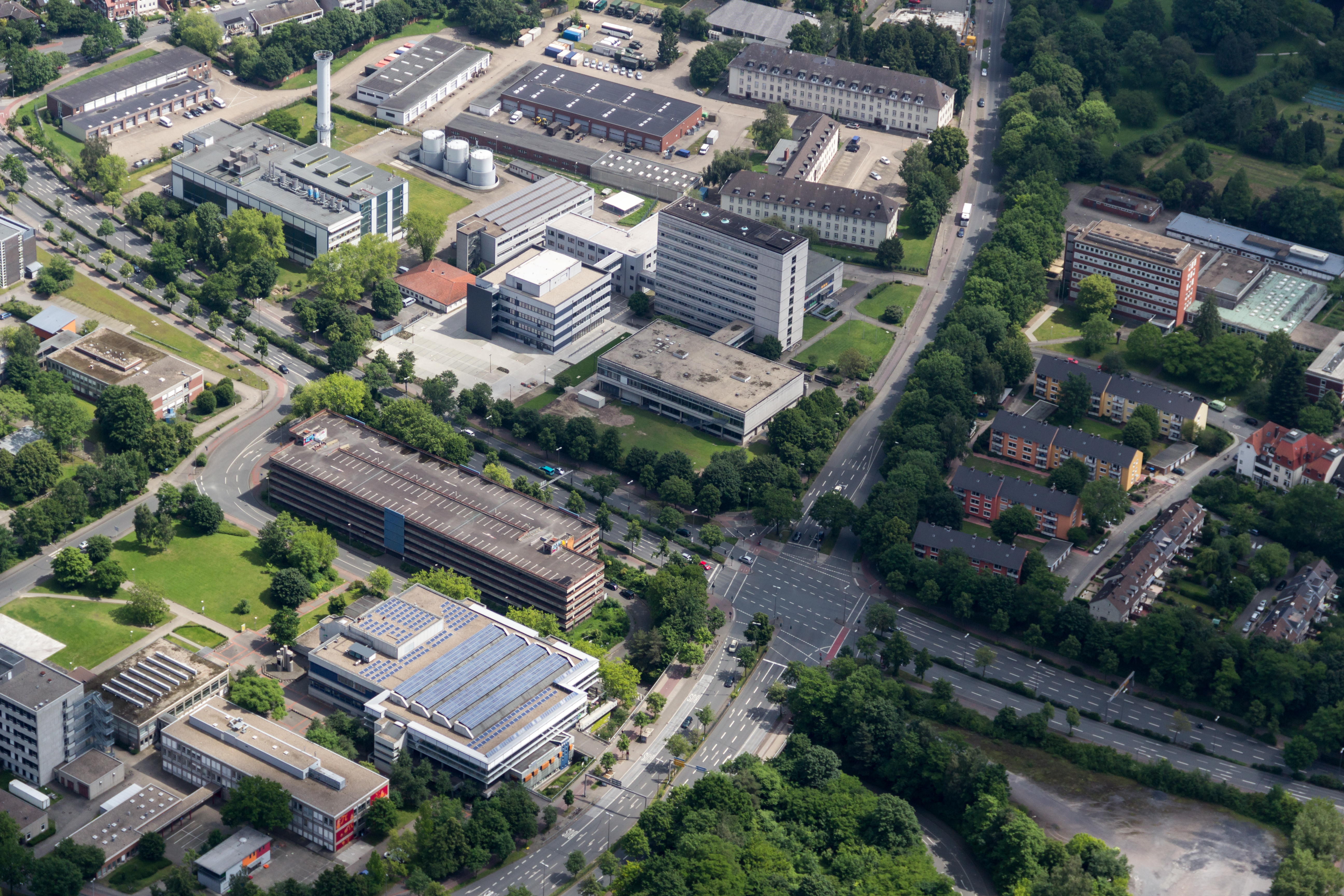 Mensa II and Mathematisches Institut, Münster, North Rhine-Westphalia, Germany